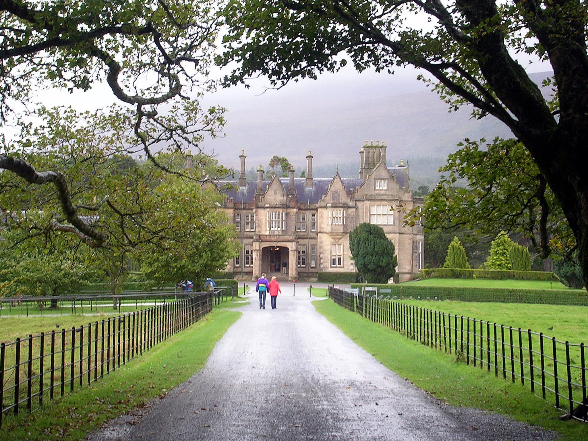 Mucross House, Killarney, County Kerry, Ireland